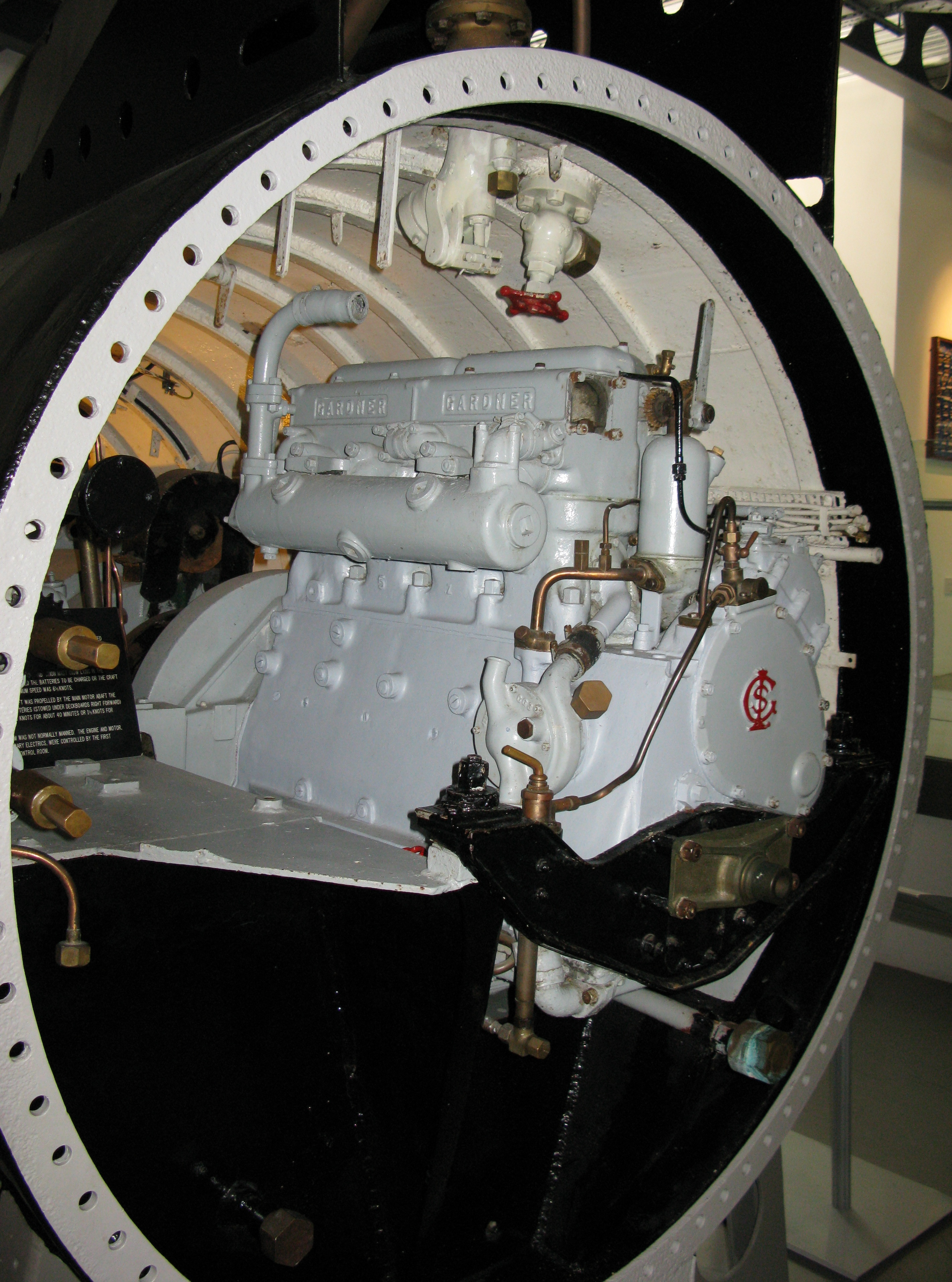 Photo of the engine of the X-24 X-craft midget submarine